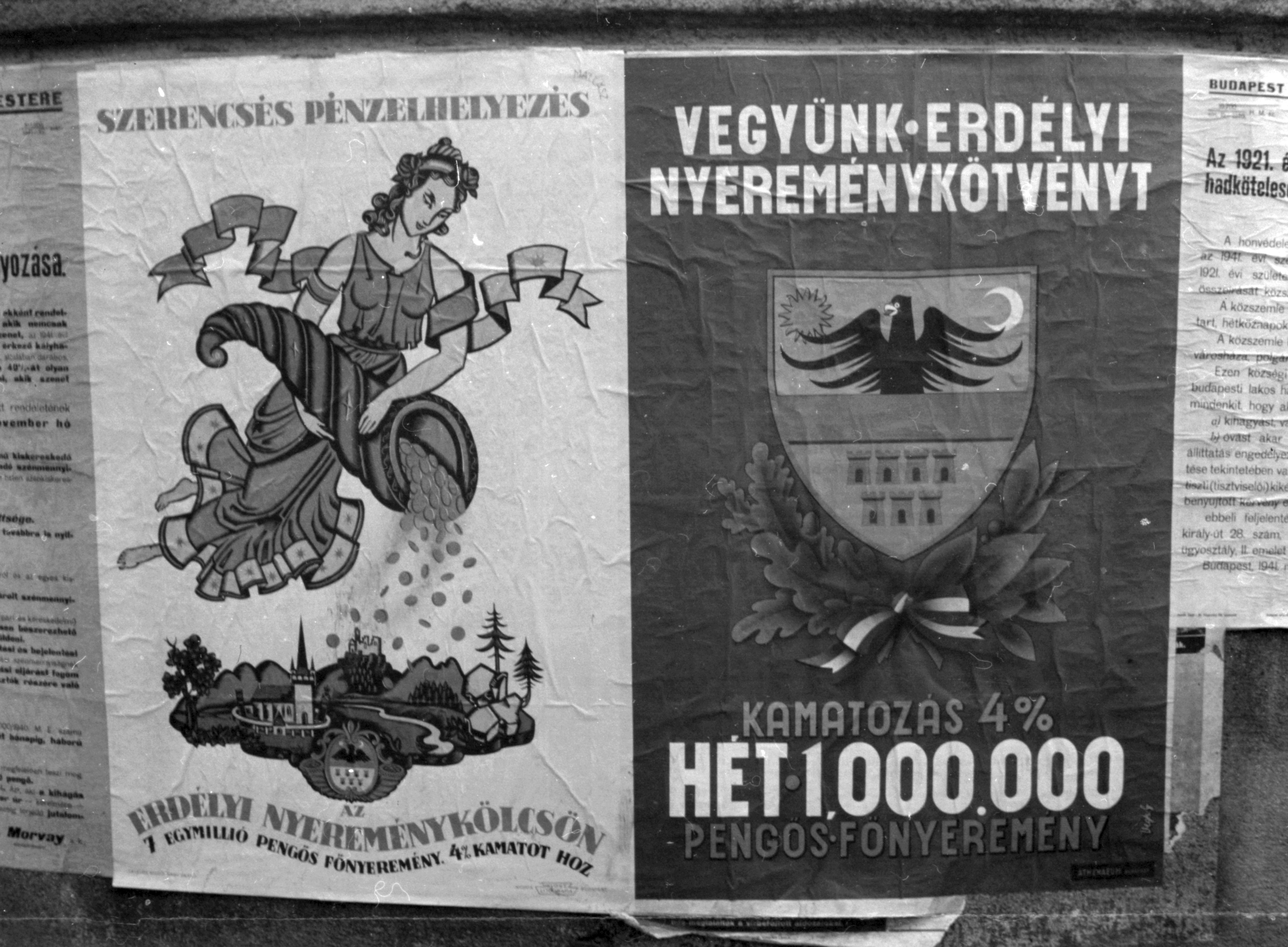 Location: Hungary, Budapest Tags: poster, gamble, Gitta Mallász-graphics